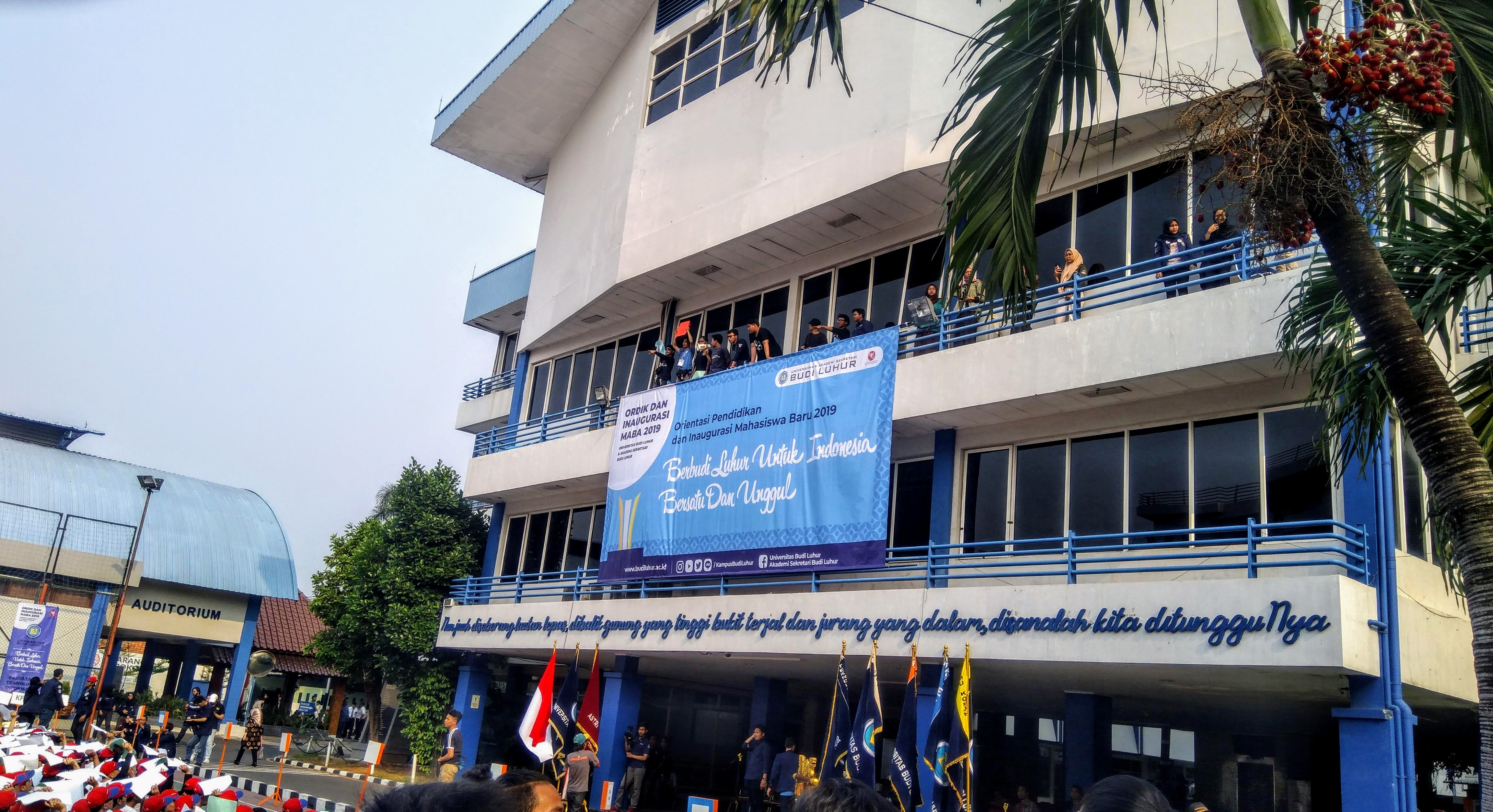 Here is Budi Luhur University Unit 3-6 building, taken during 2019 Orientation Period.